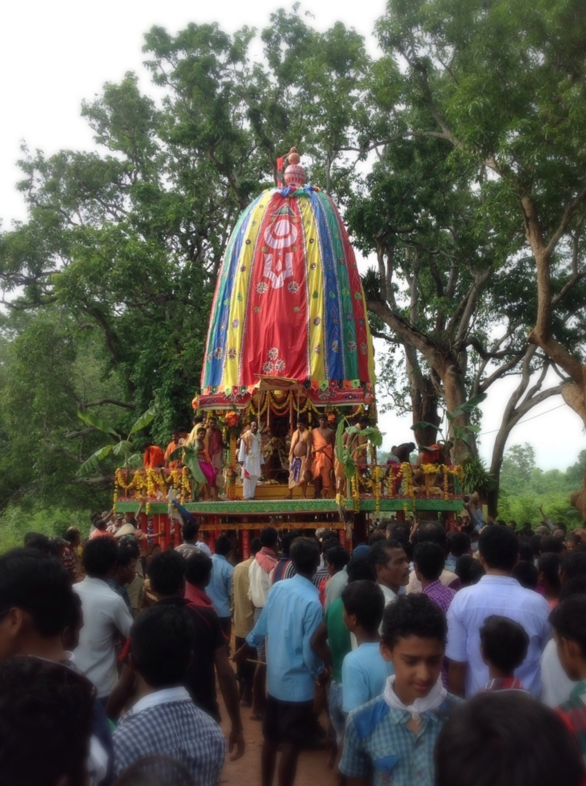 Chariot of Lord Jagannath Uploaded by Mr. Santosh sahu